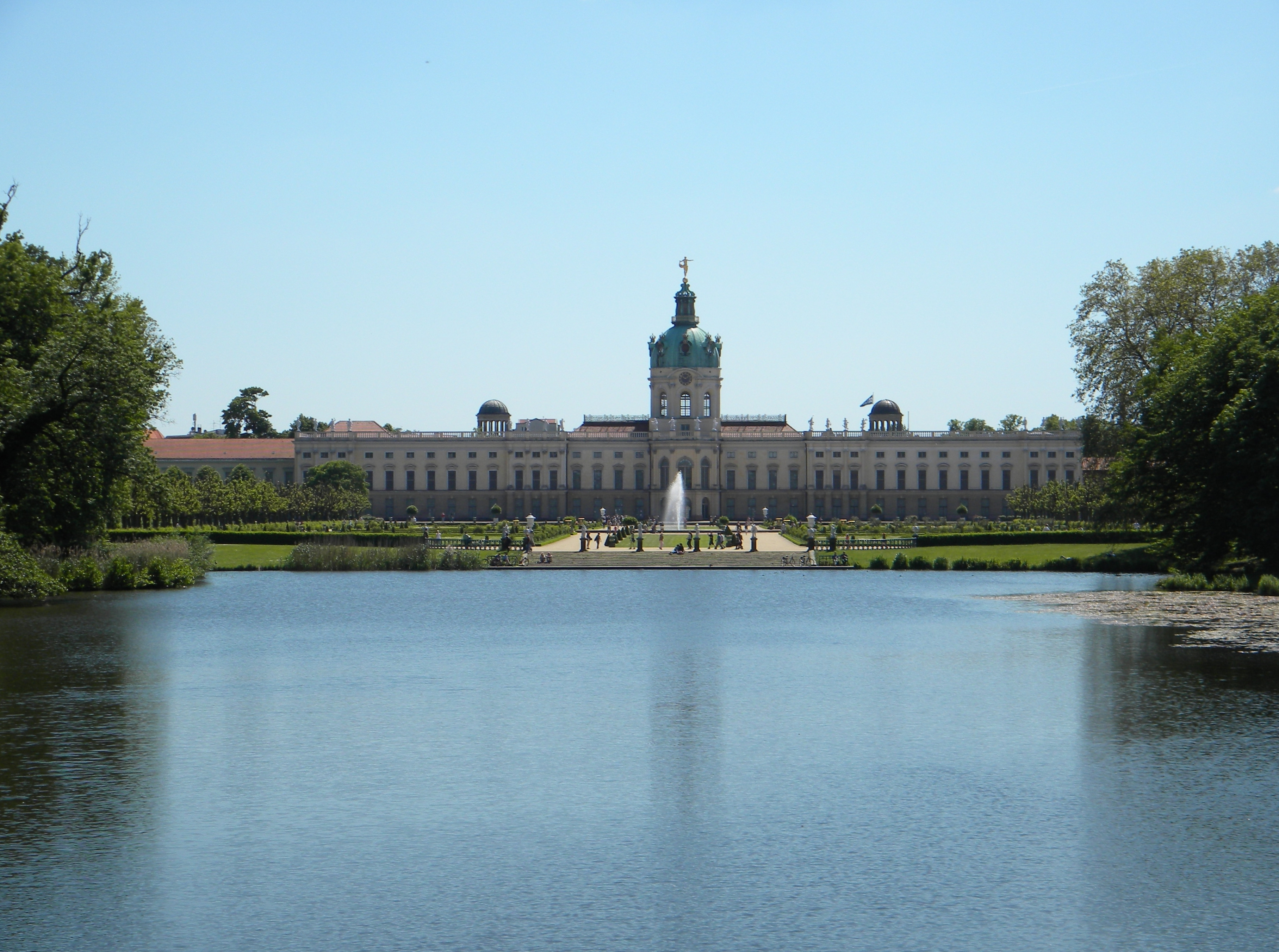 Schloss Charlottenburg in Berlin as seen from its park area.